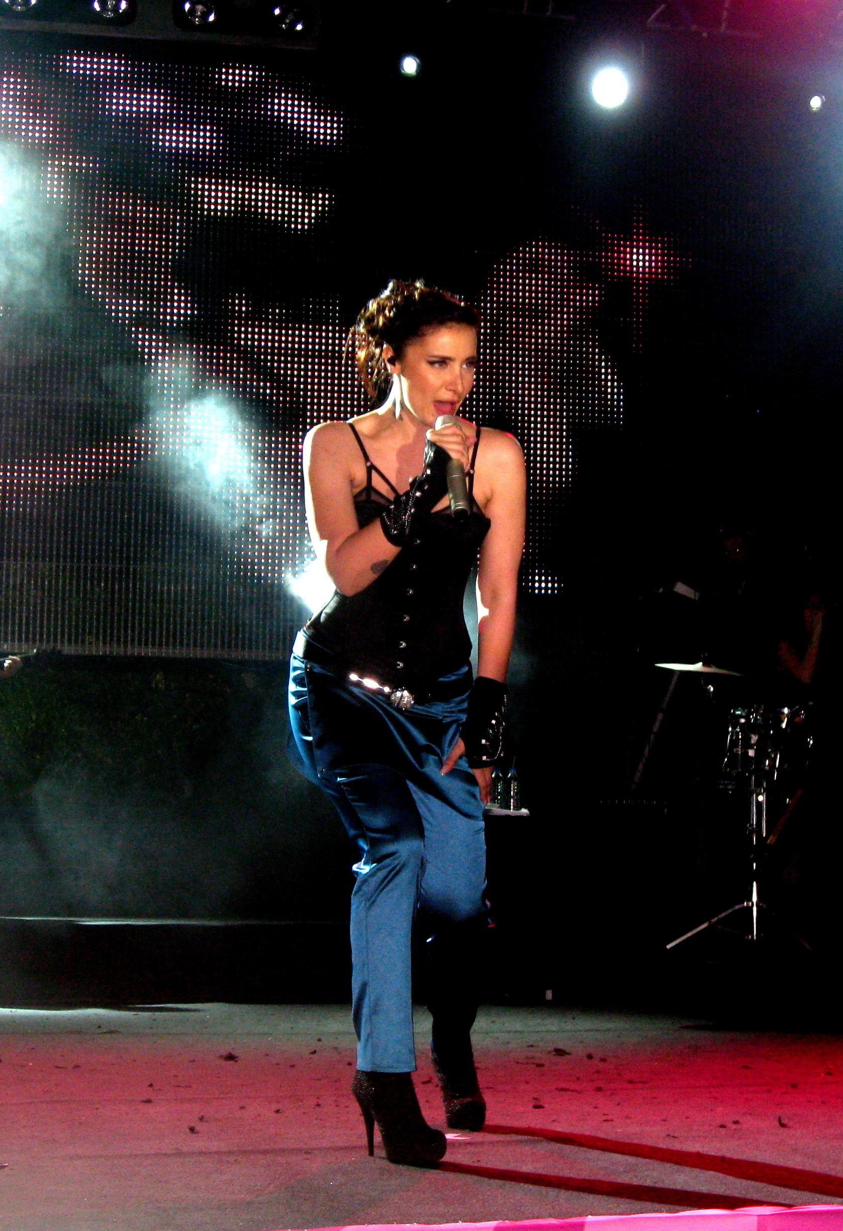 Turkish pop singer, songwriter and producer,Sıla.